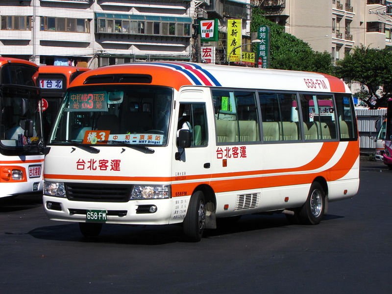 658-FM